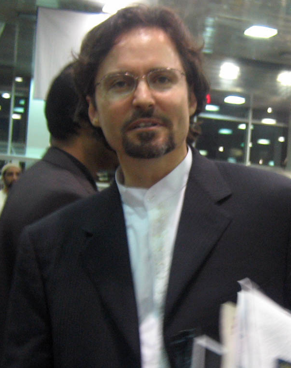 Hamza Yusuf